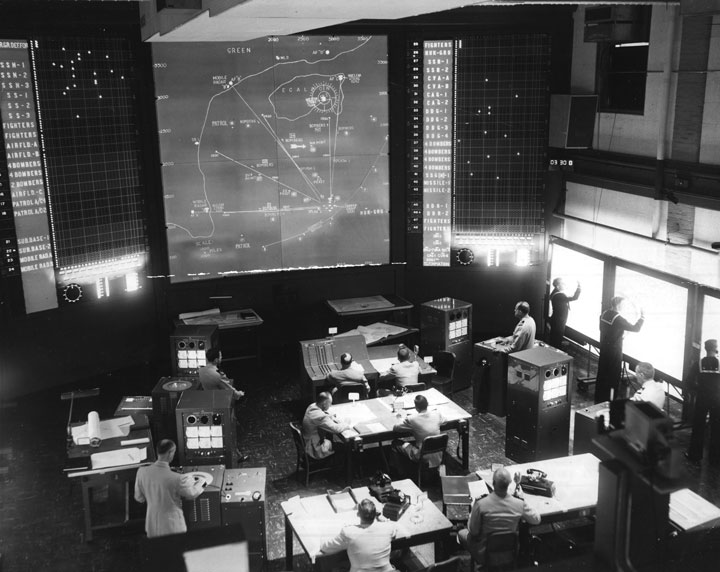 A wargame at the US Naval War College in 1958, using the newly installed Navy Electronic Warfare Simulator.